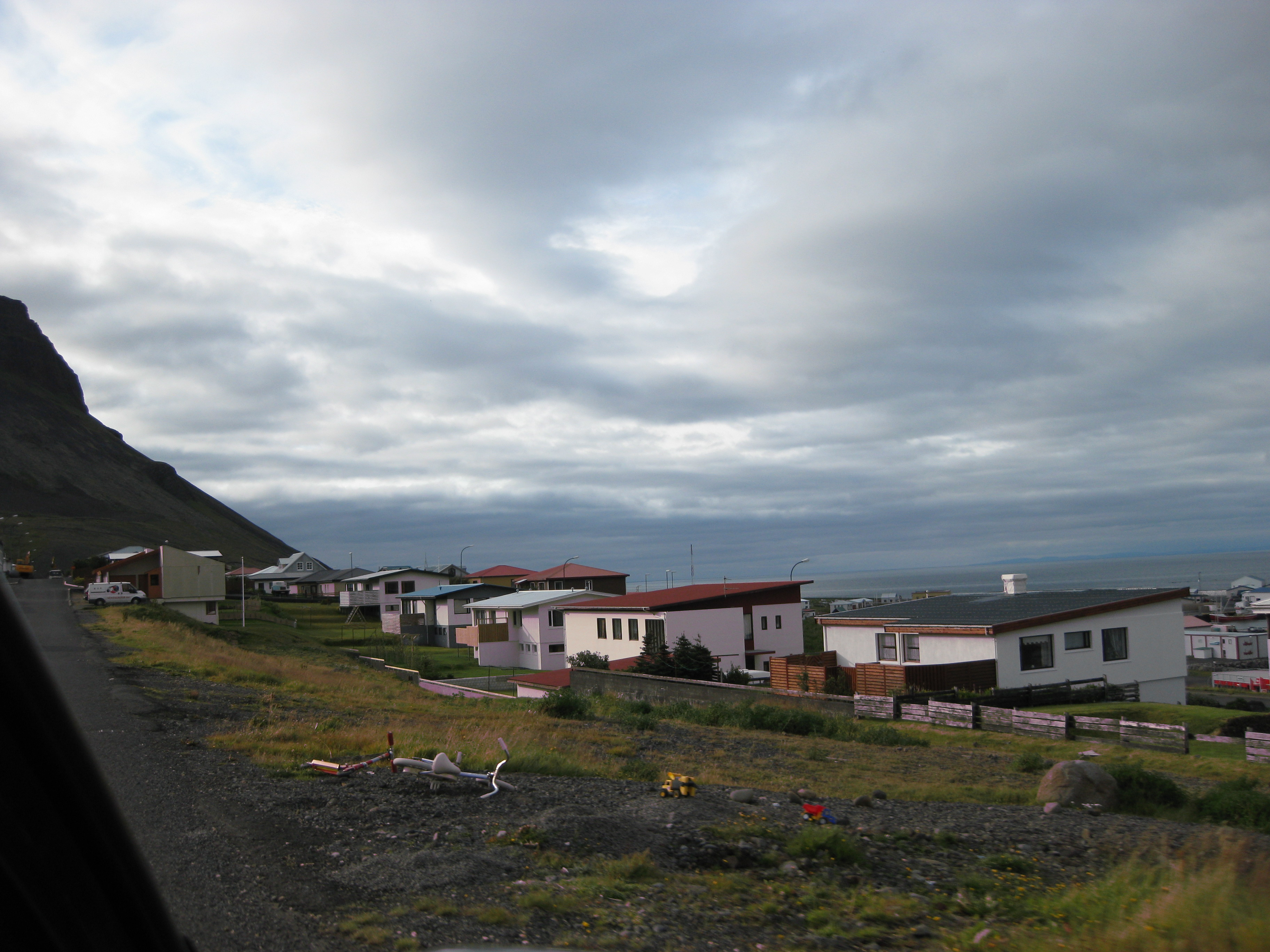 View of of the fishing town Ólafsvík in Snæfellsnes , Iceland. Photo by Salvor Gissurardottir in August 2008